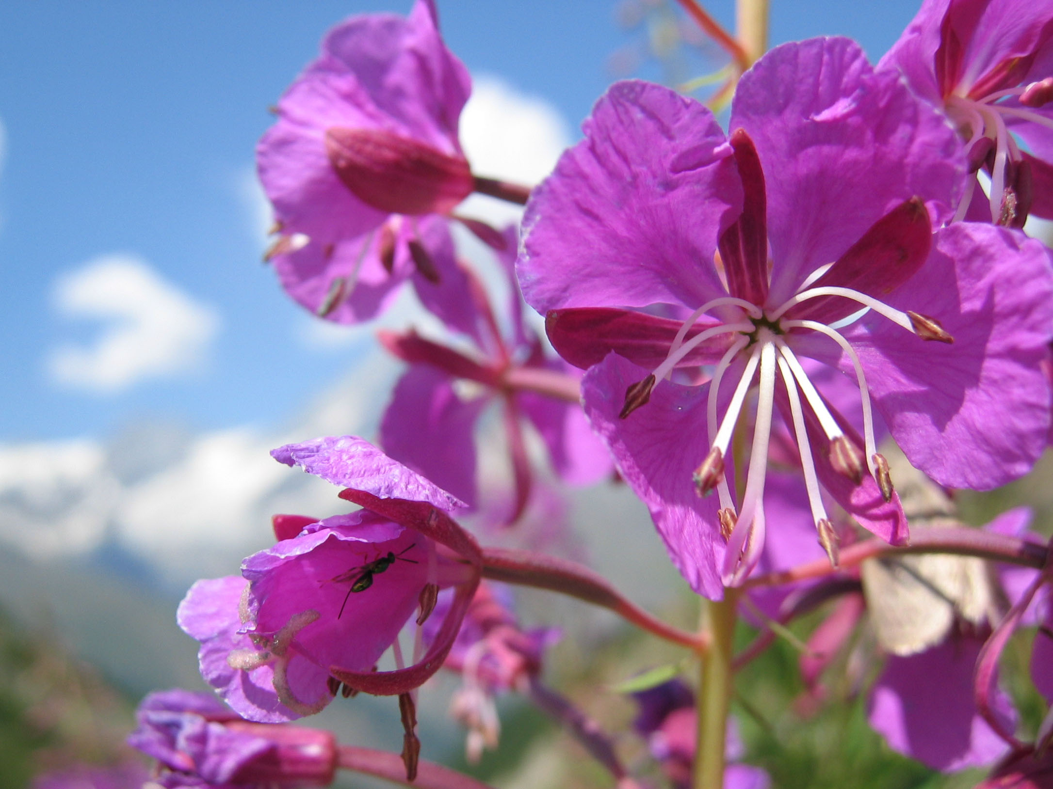 Chamerion angustifolium